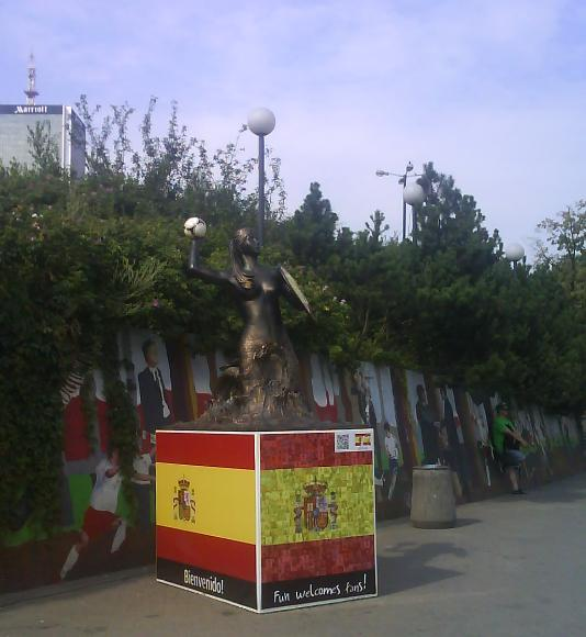 Warsaw Mermaid, decked in flag of Spain - Euro 2012 winning team.